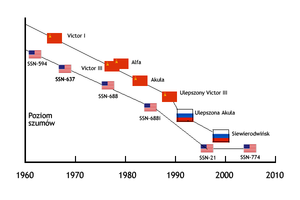 Acoustic stealth comparison (broadband quieting). Own work based on N. Polmar "Cold War Submarines"